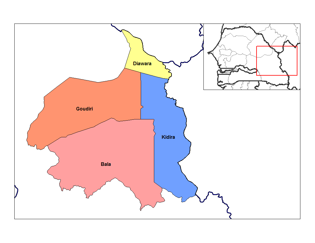 Map of the arrondissements of Bakel department in Senegal.